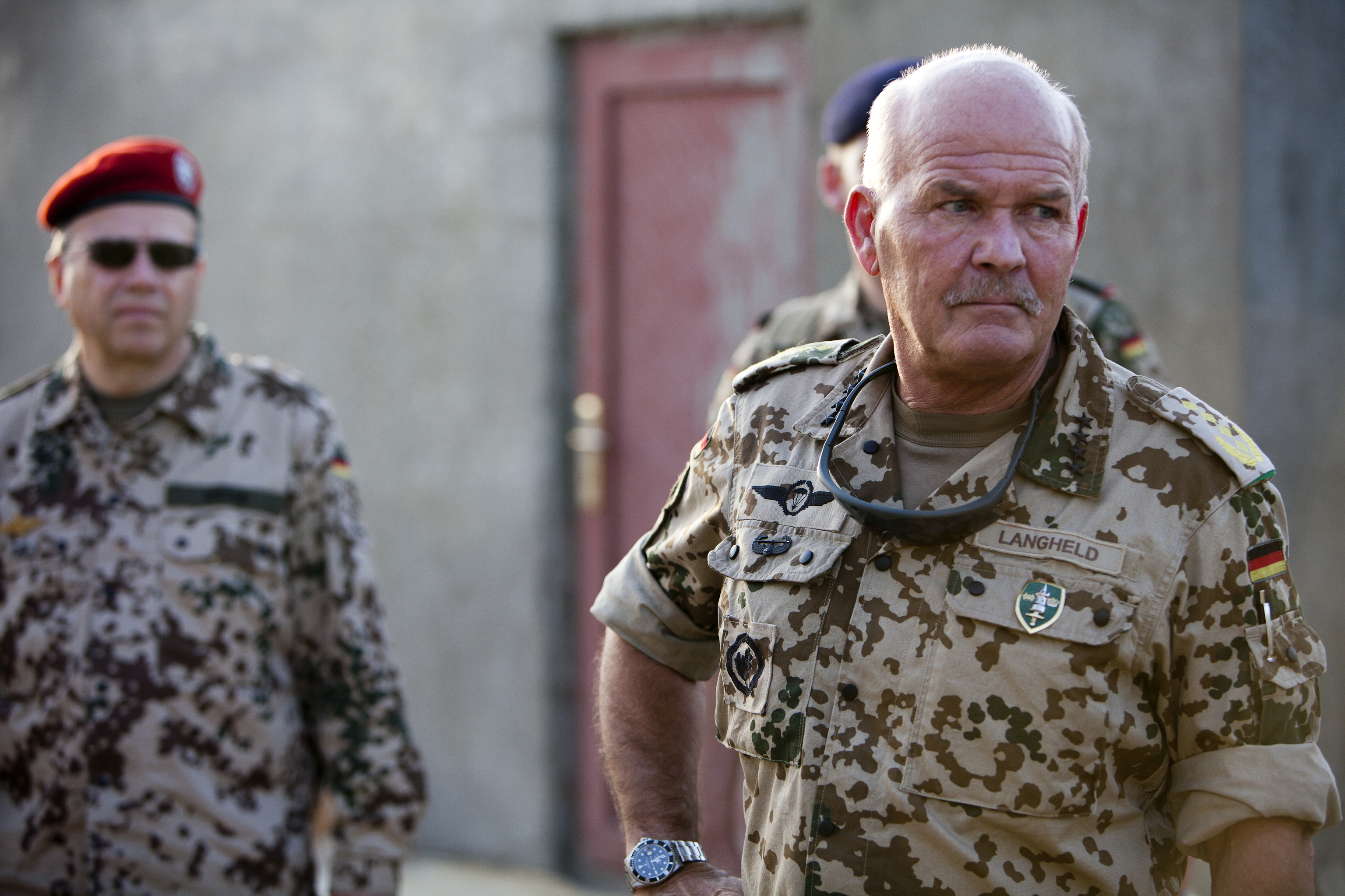 German Gen. Wolf-Dieter Langheld, commander, North Atlantic Treaty Organization Allied Joint Force Command (JFC) Brunssum, tours the Regional Military Training Center (Southwest) at Camp Shorabak, Helmand province, Afghanistan, Aug. 12, 2011. The training center opened April 30, 2011, and is used for Afghan National Army members going through basic training.